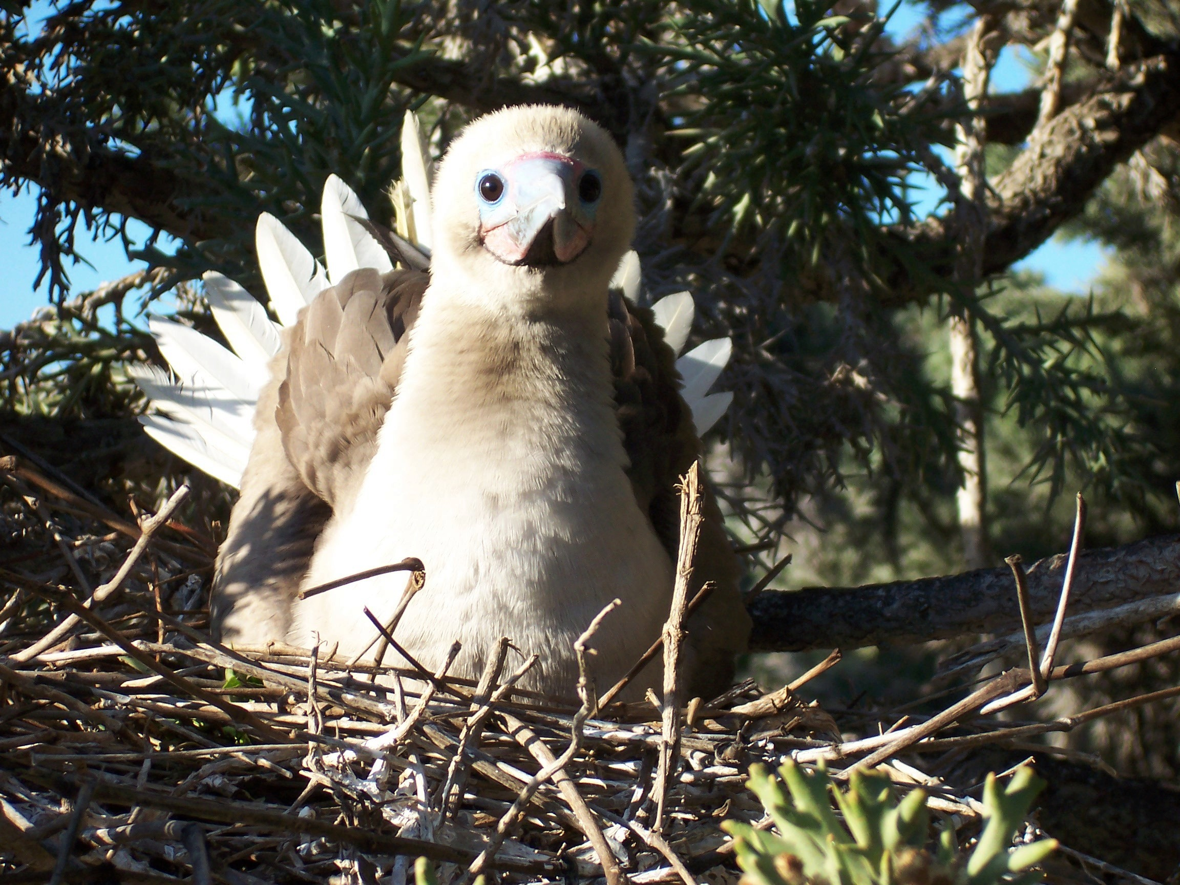 Brown morph red-footed booby (Sula sula) at nest on Euphorbia stenoclada on Europa island